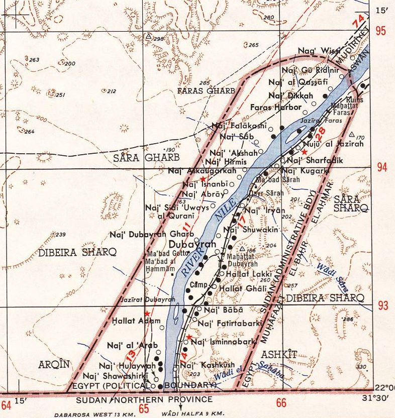 North Africa 1:250,000 Sheet NF 36-5 in the southeast is the Wadi Halfa Salient, with the situation before the flooding by the Aswan Dam and Lake Nasser